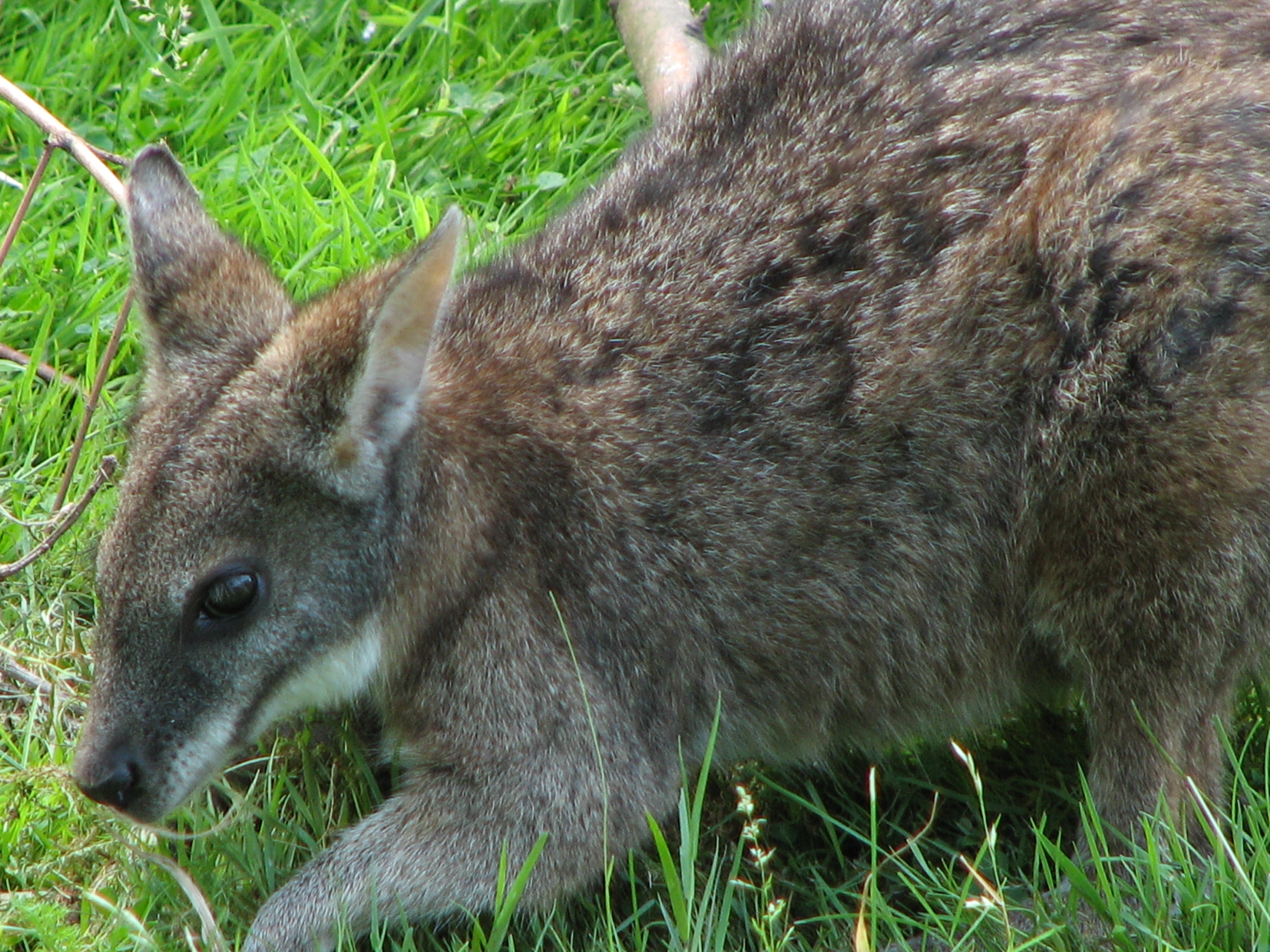 Parma wallaby at the Berlin zoo.